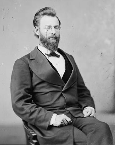 Edward C. Kehr, US Representative from Missouri